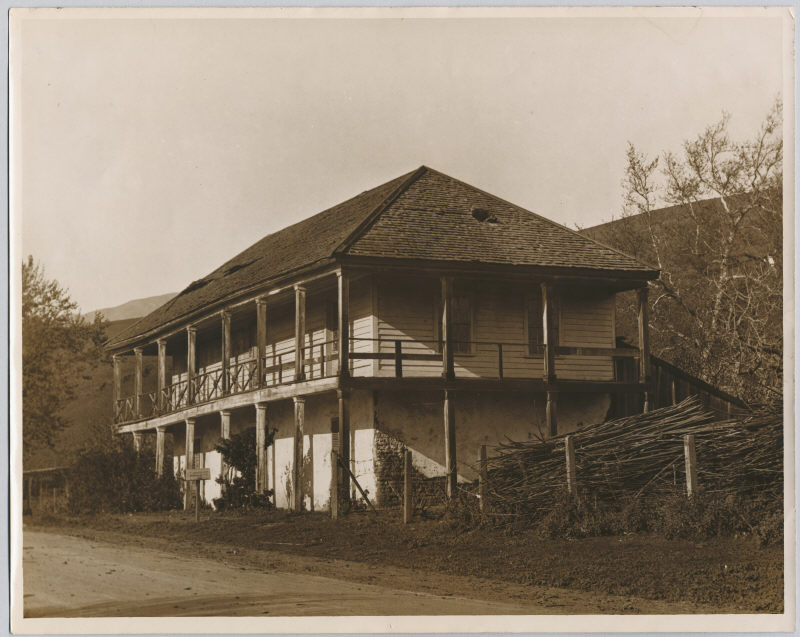 Adobe of José María Alviso, early alcade (mayor) of San Jose, California. The Jose Maria Alviso Adobe, built in 1837 and enlarged in the early 1850s, stands as an excellent example of the Monterey style of architecture popularized throughout California in the 1830s and 1840s. It is the only remaining example of this style in the Santa Clara Valley and San Francisco Bay area.